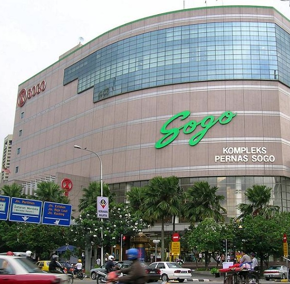 KLSOGO Photo